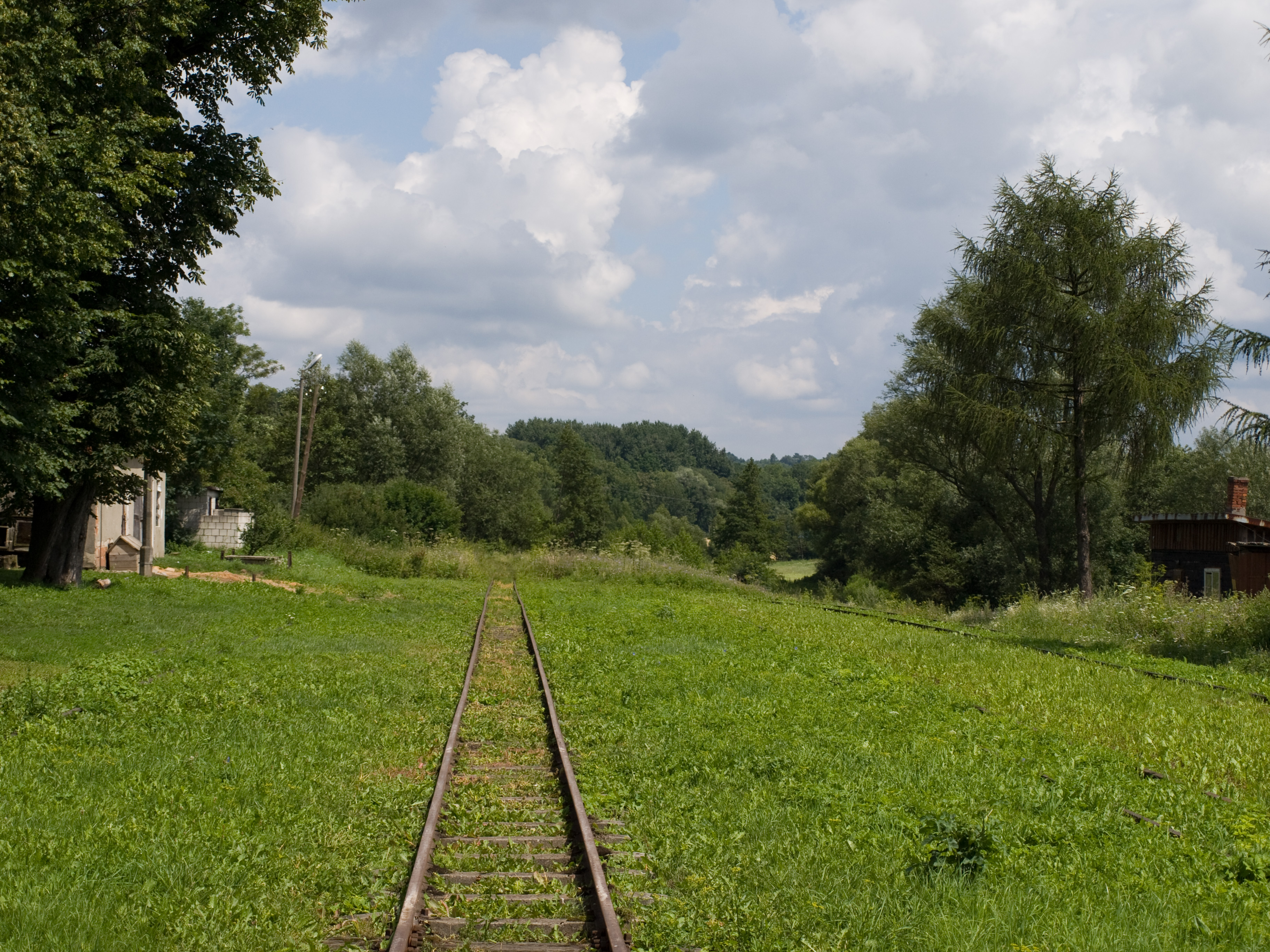 Train station, Bachórz, Subcarpathian Voivodeship